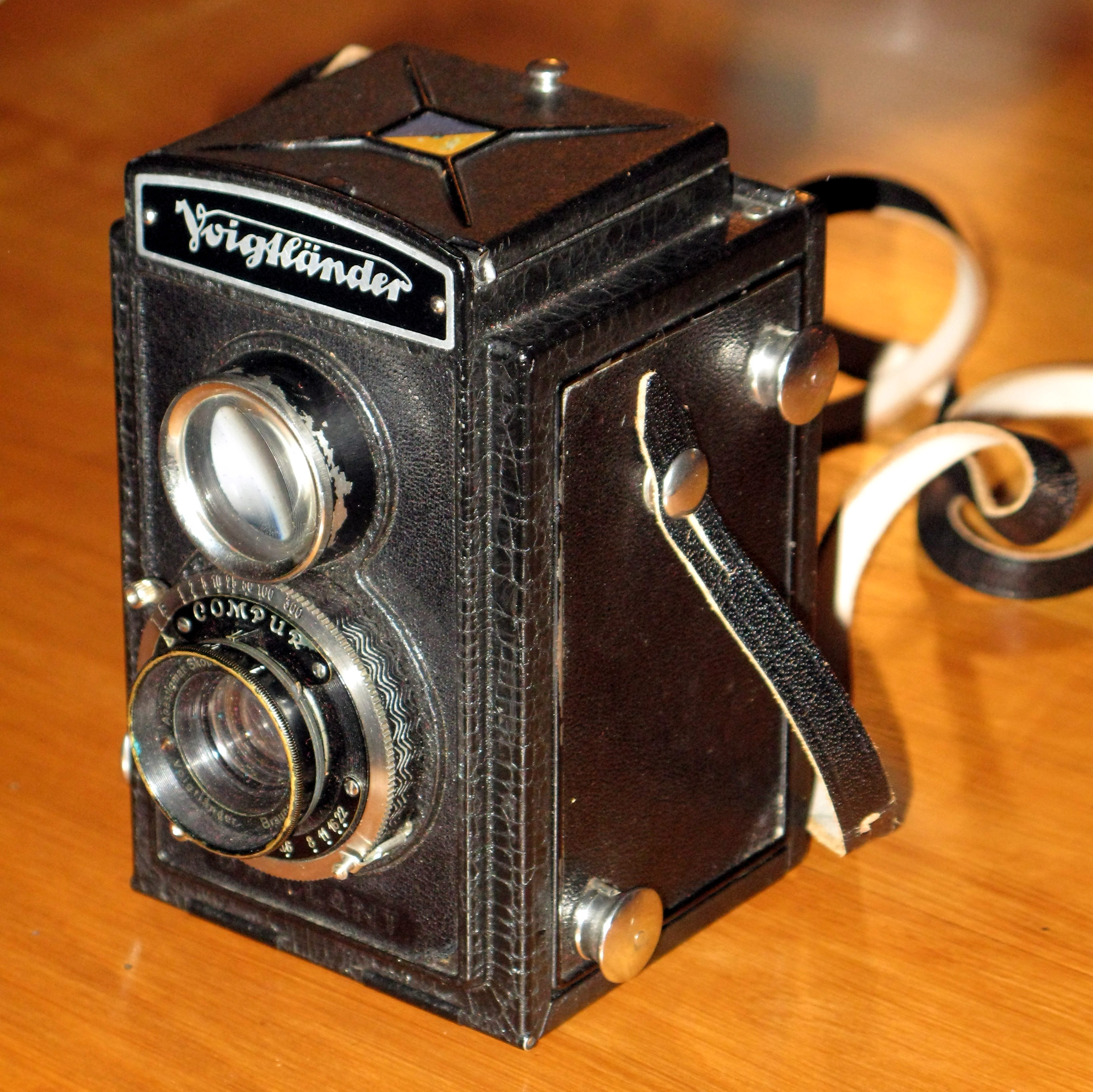 Voigtländer Brillant